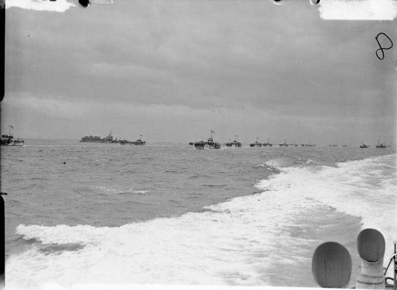 Rows of landing ship tanks leaving their base, part of the invasion armada bound for Normandy. Photograph taken from a motor torpedo boat.